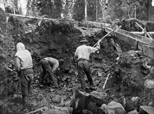 Gold mining by the Ivalojoki River, Finland, 1898.